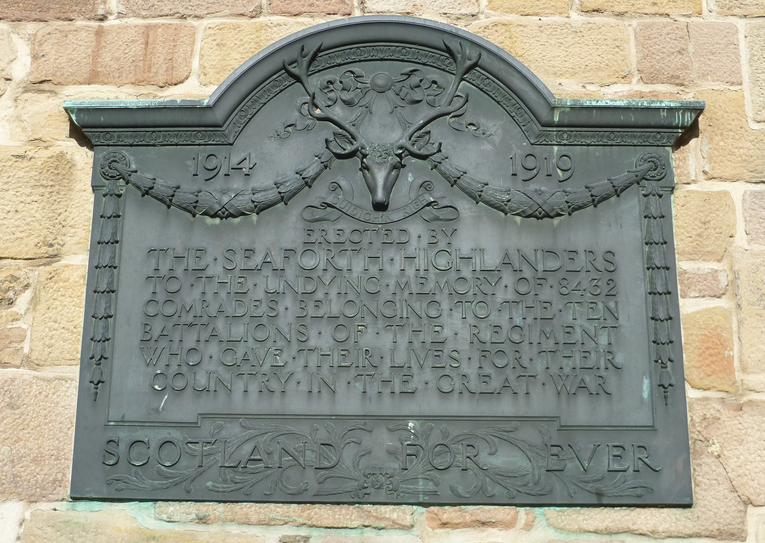 Bronze memorial plaque on a wall of the tolbooth in Tain